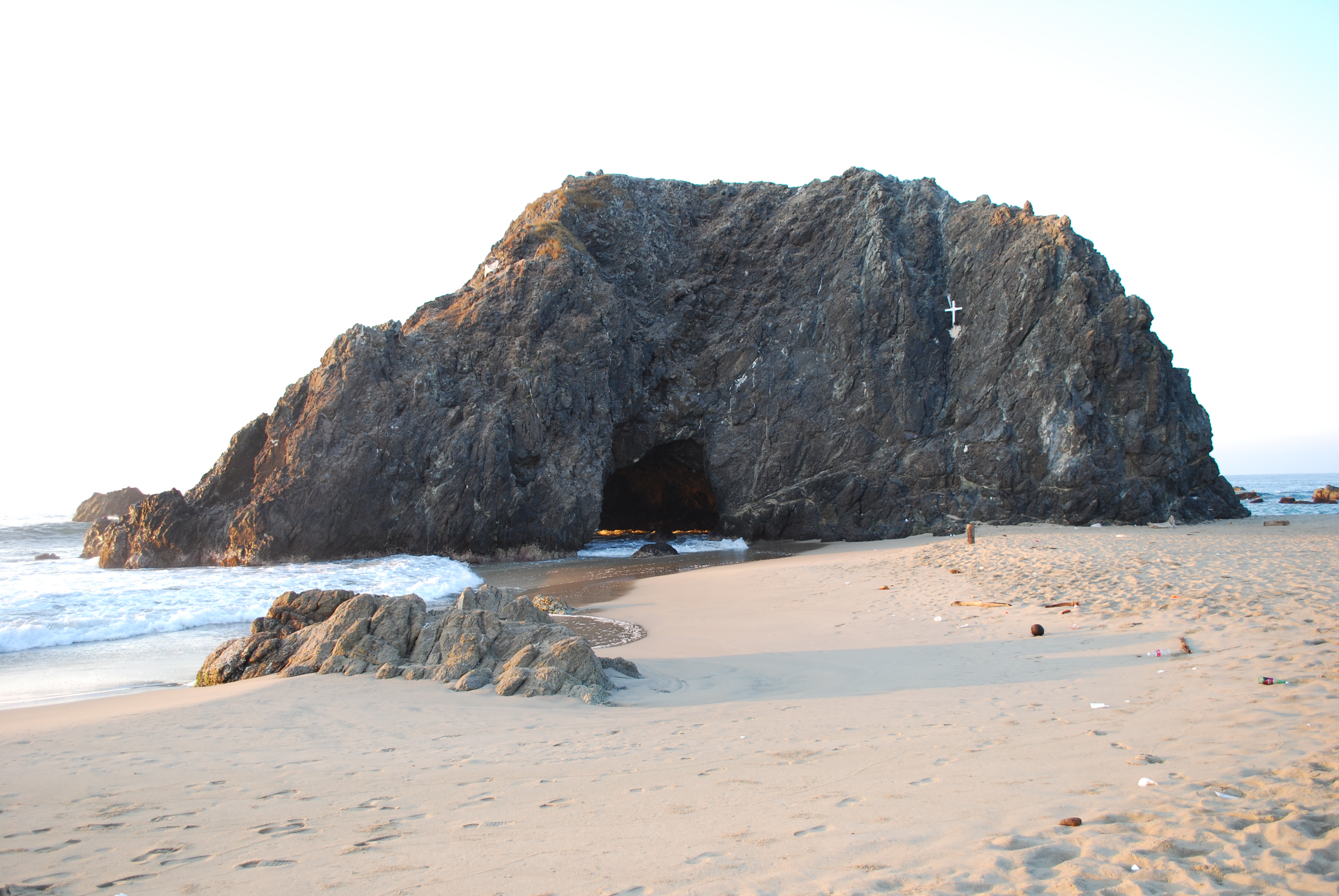 Piedra de Tlalcoyunque or Tlalcoyunque Rock in Guerrero, Mexico